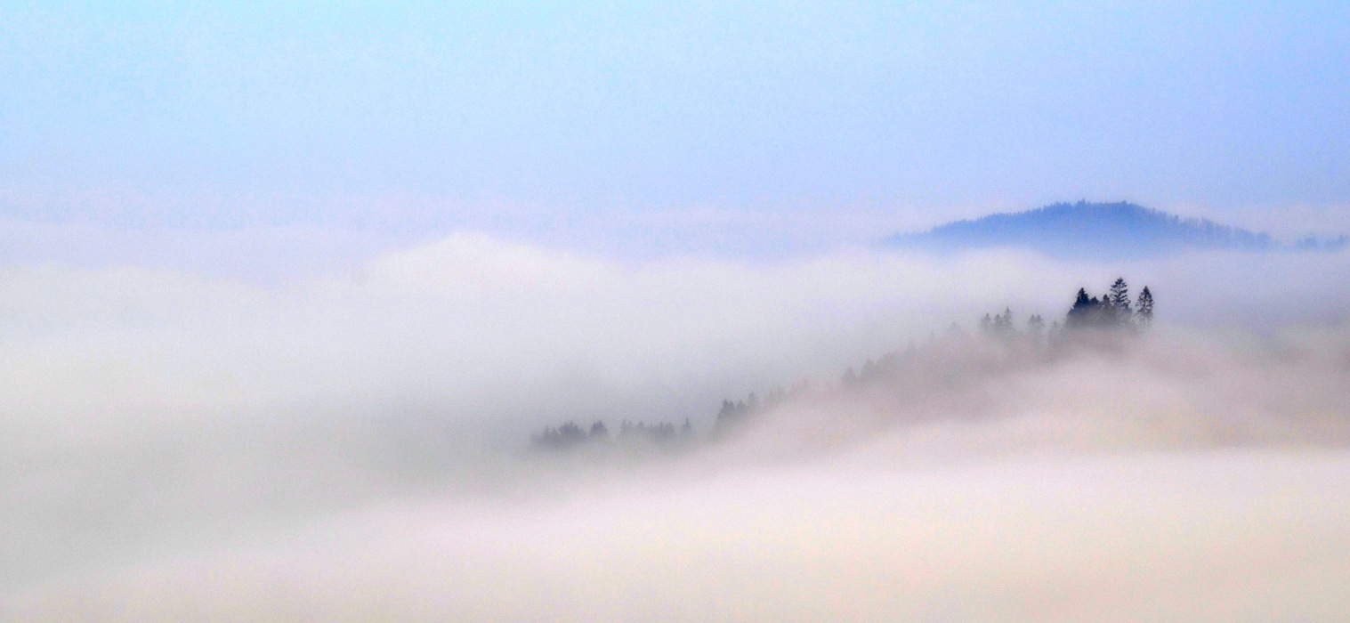 Fog in Sauerland, Germany